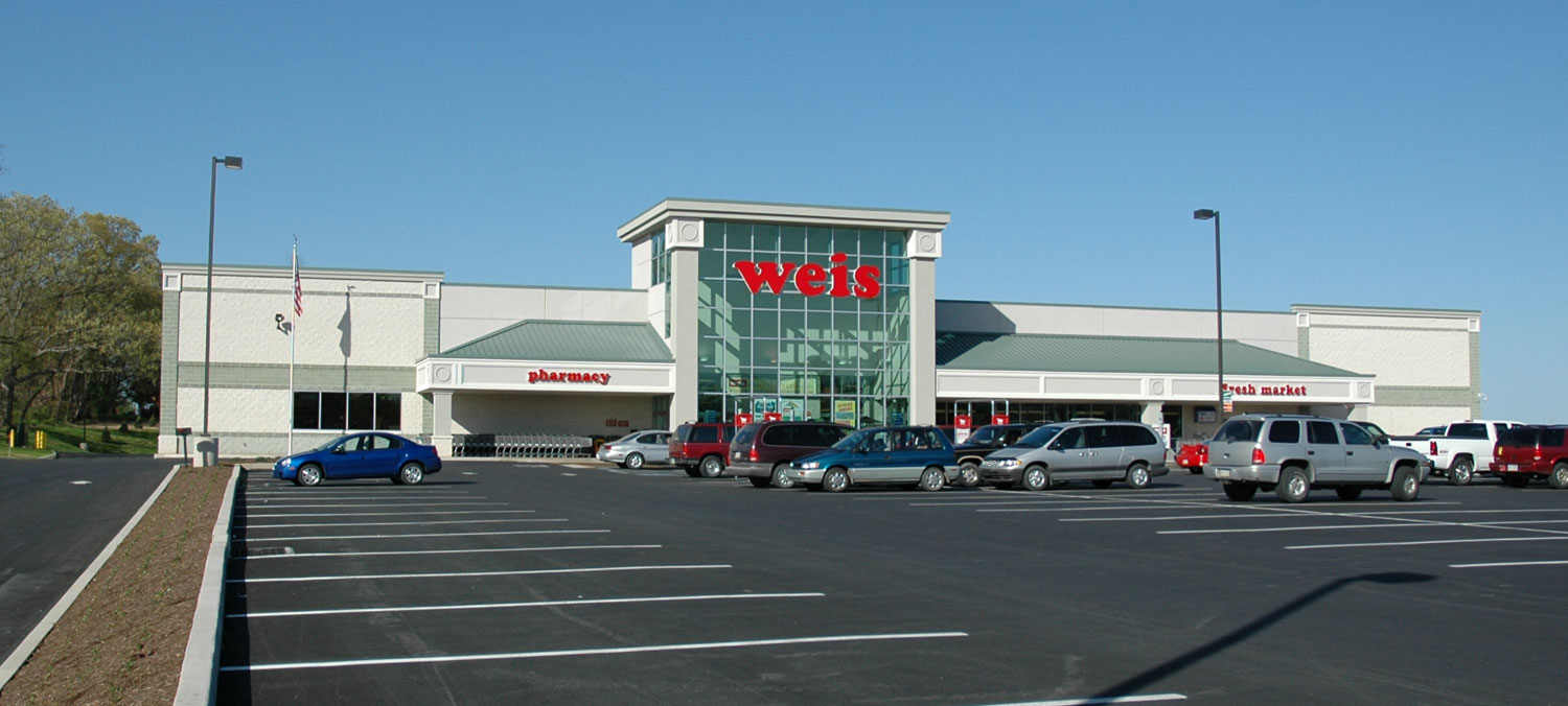 A Weis supermarket (store #176) in Mifflintown, Pennsylvania. Photo by Adam Gilson